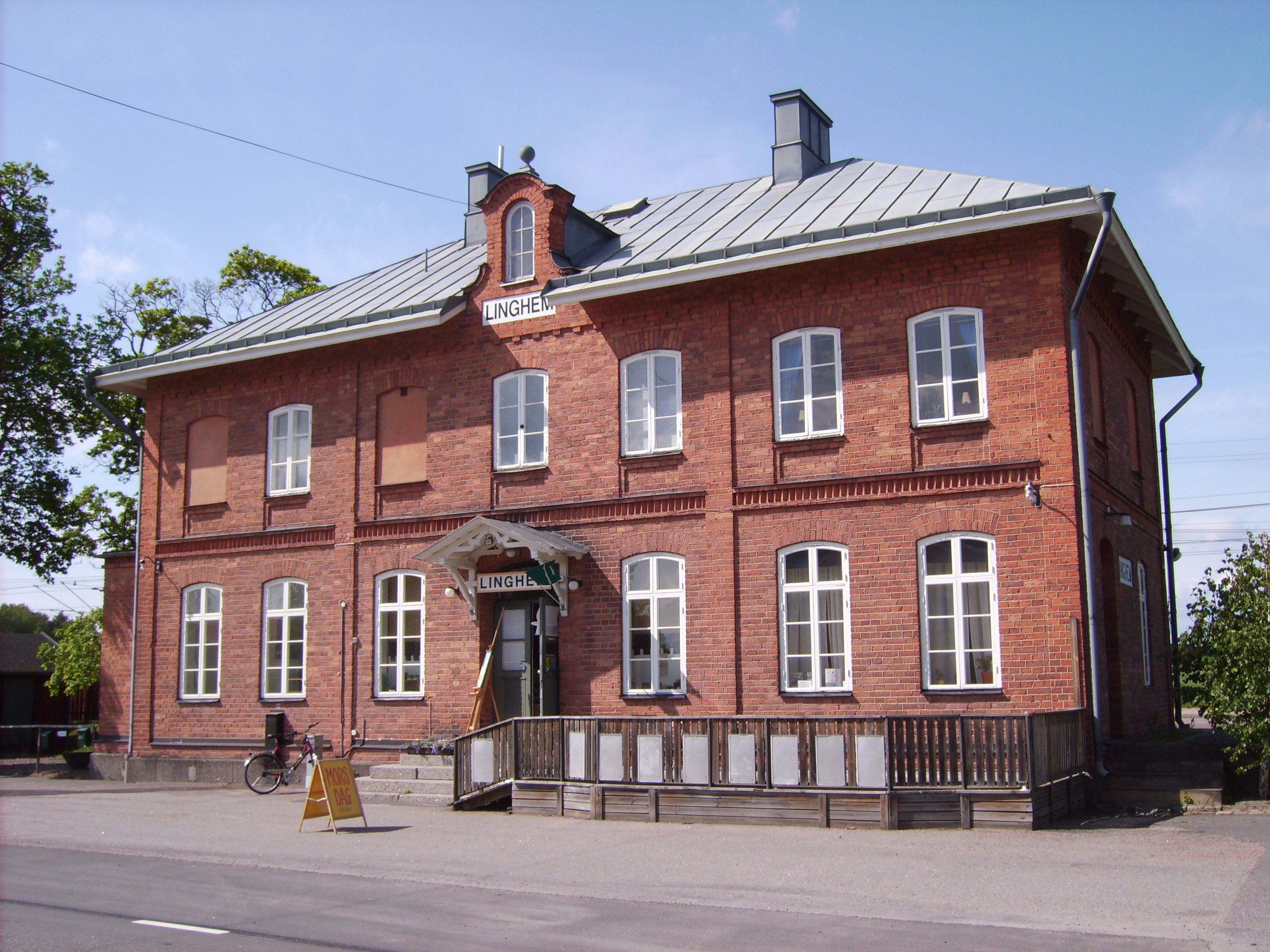 Linghem railway station